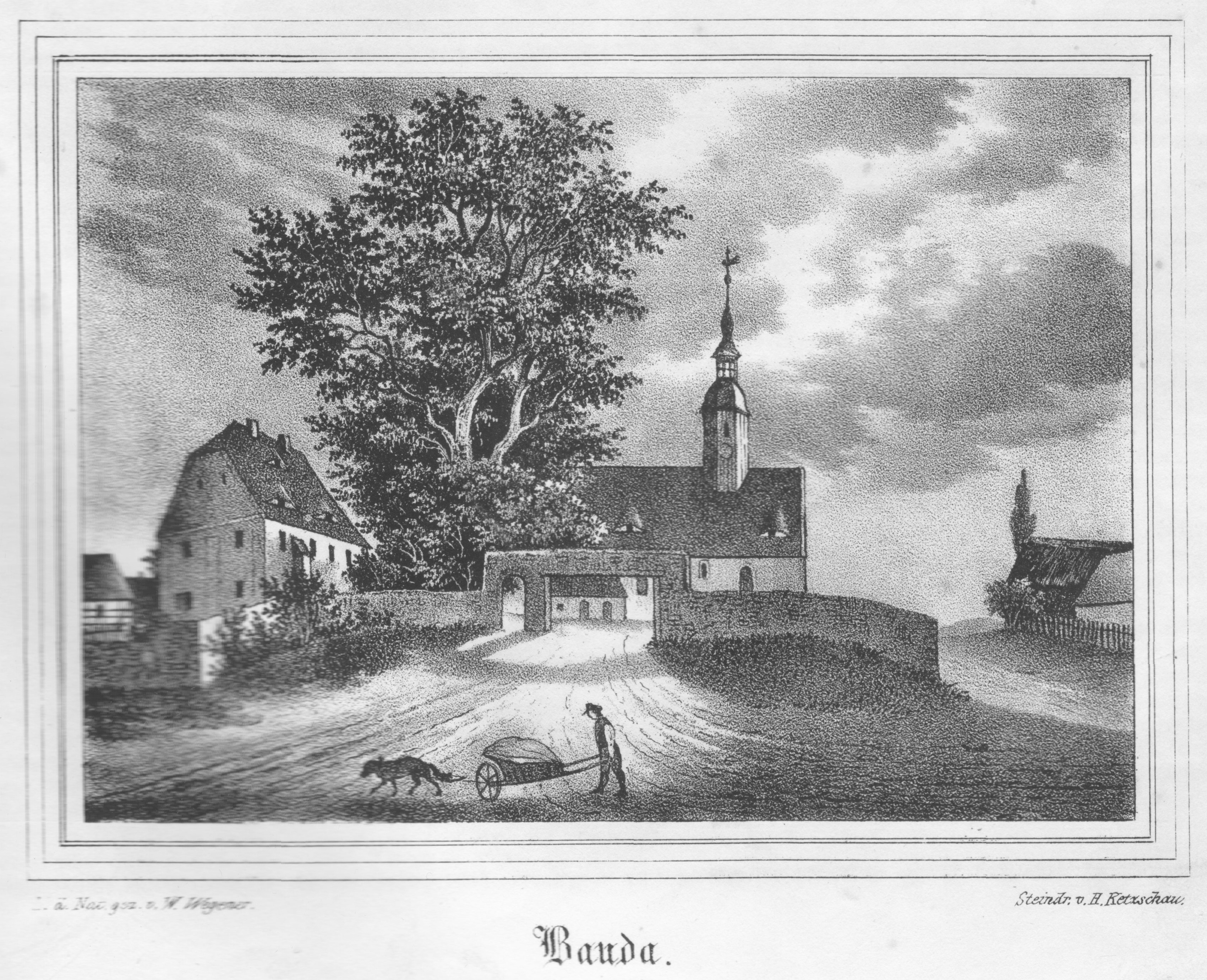 Drawing of Bauda in Sachsens Kirchen-Galerie